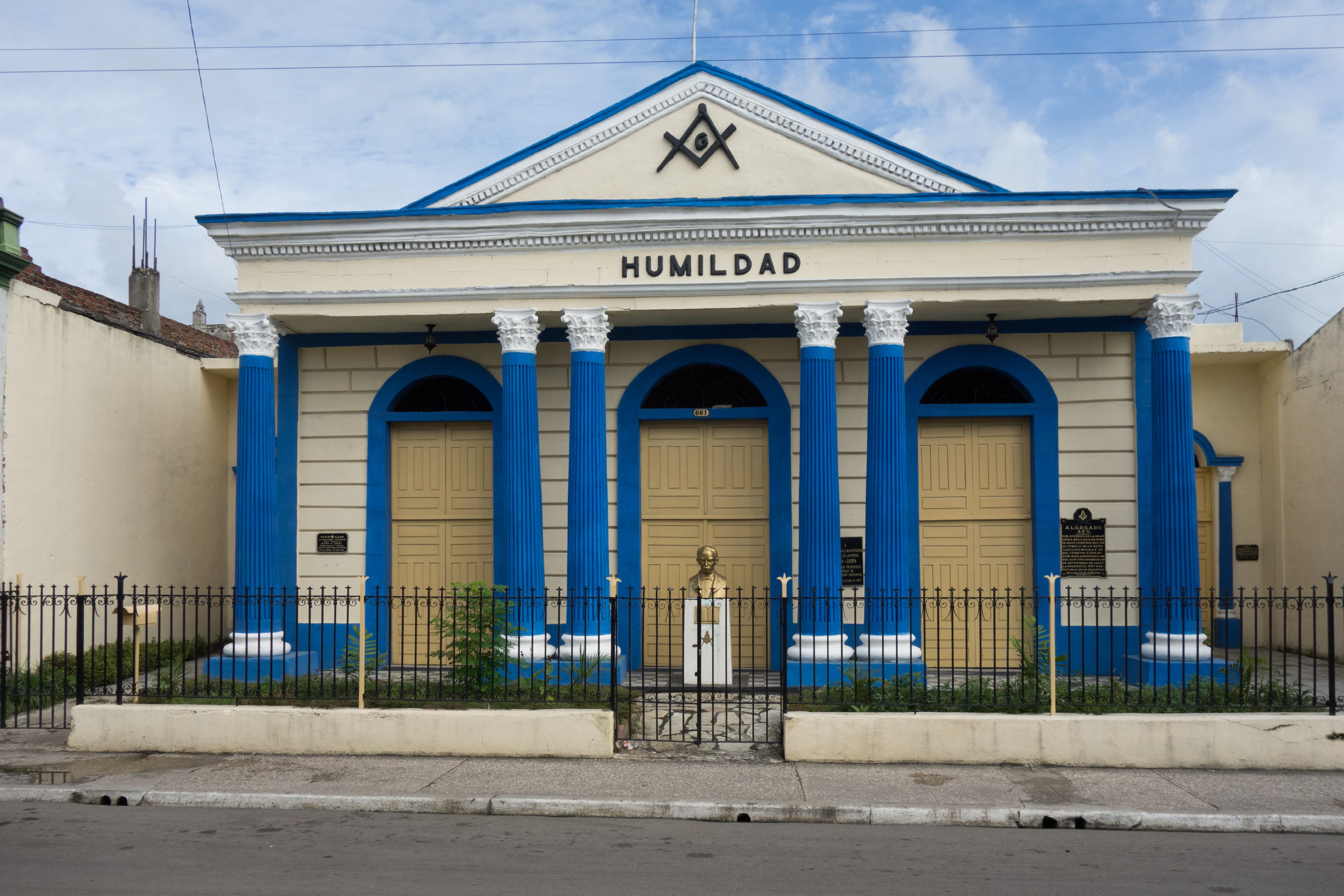 Masonic Lodge "Humildad", Guantánamo city, Cuba.Inscription